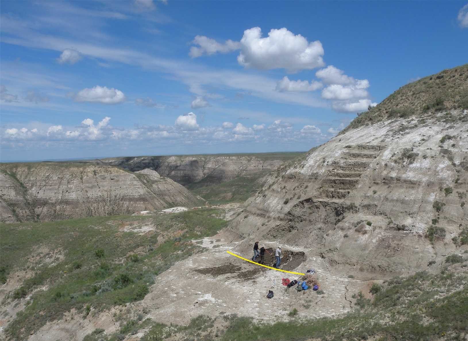 Photograph of the quarry containing Wendiceratops pinhornensis holotype. Yellow line indicates approximate level of the bonebed at the base of the hill. The west side of the bonebed is its erosional face.